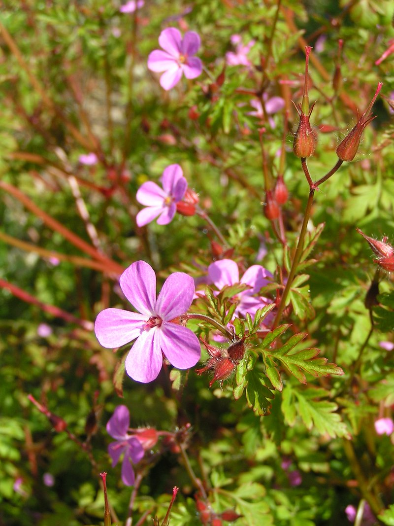 Herb Robert (Geranium robertianum). Photo by sannse, Tapeley Park, Instow, North Devon, 14 May 2004.